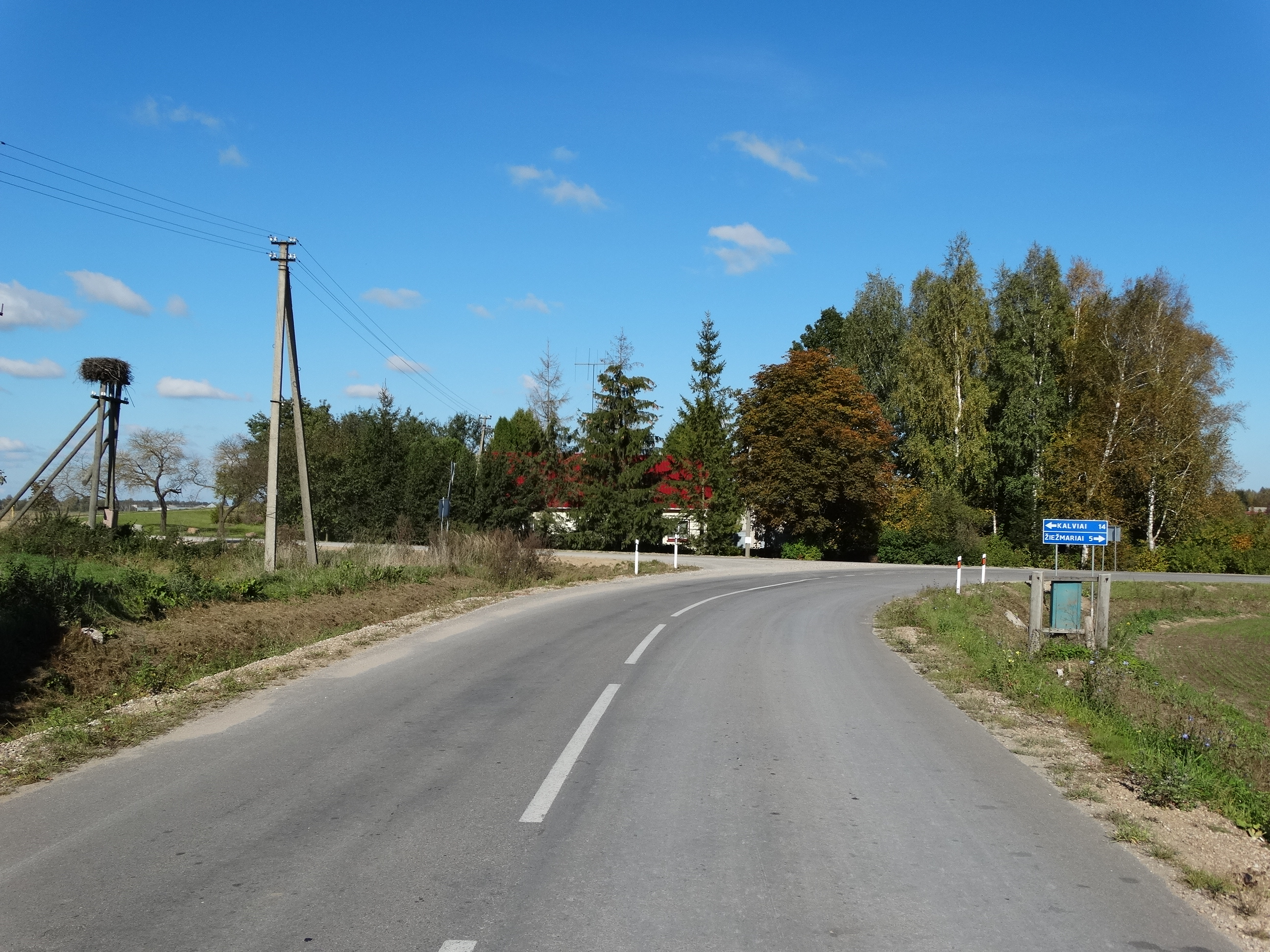 Pakertai, Kaišiadorys district, Lithuania